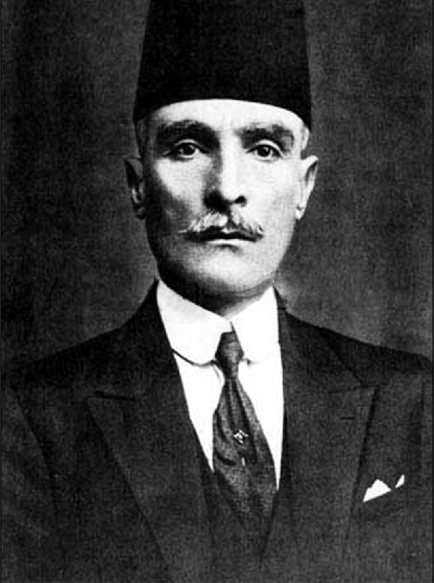 Portrait of Ibrahim Hananu, za'im (chief) of the National Bloc movement of French Mandatory Syria